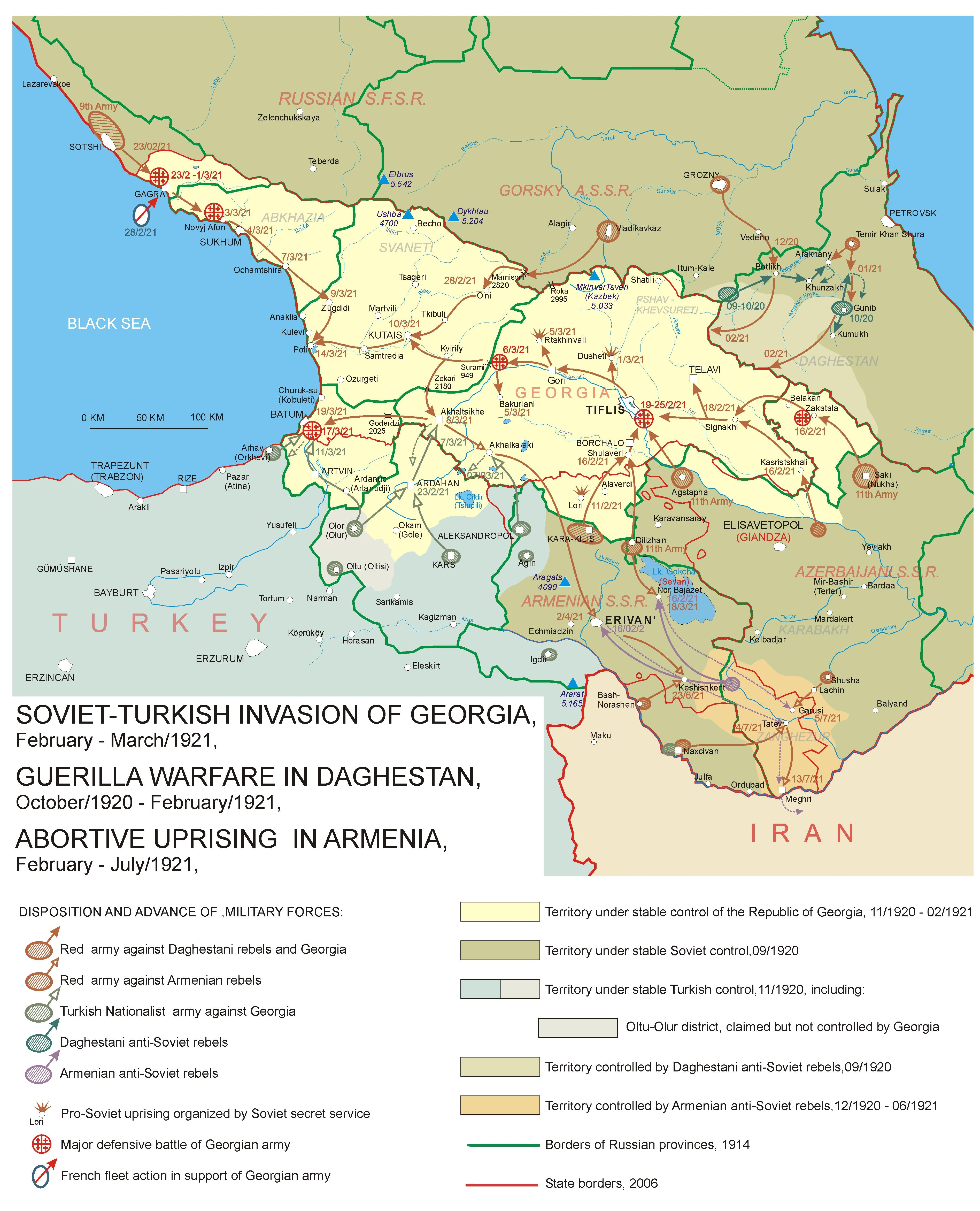 Democratic Republic of Georgia, 1921 before the Bolshevik invasion